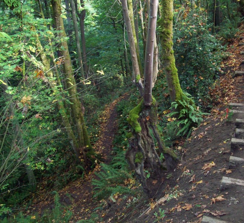 A view off a trail in Puget Park (in the West Duwamish Greenbelt), Seattle.